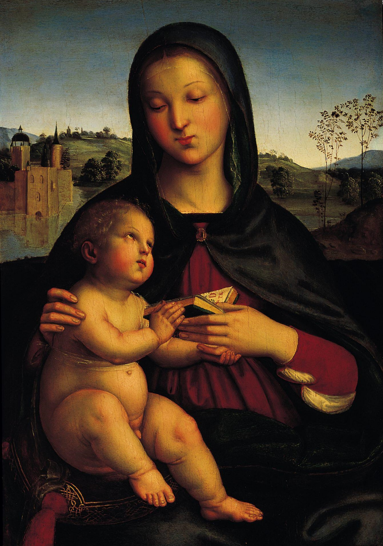 Madonna and Child with Book